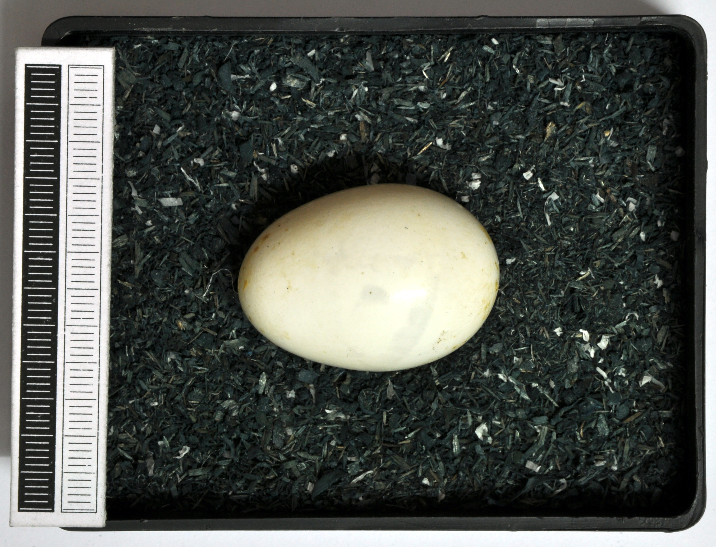 Black woodpecker Dryocopus martius, egg, Coll. Museum Wiesbaden, Origin: Ämäl, Sweden, 25.04.1963, leg. W. Abelmann